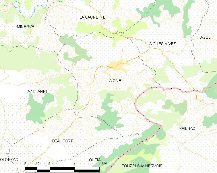 Map commune FR insee code 34006.png - Aigne